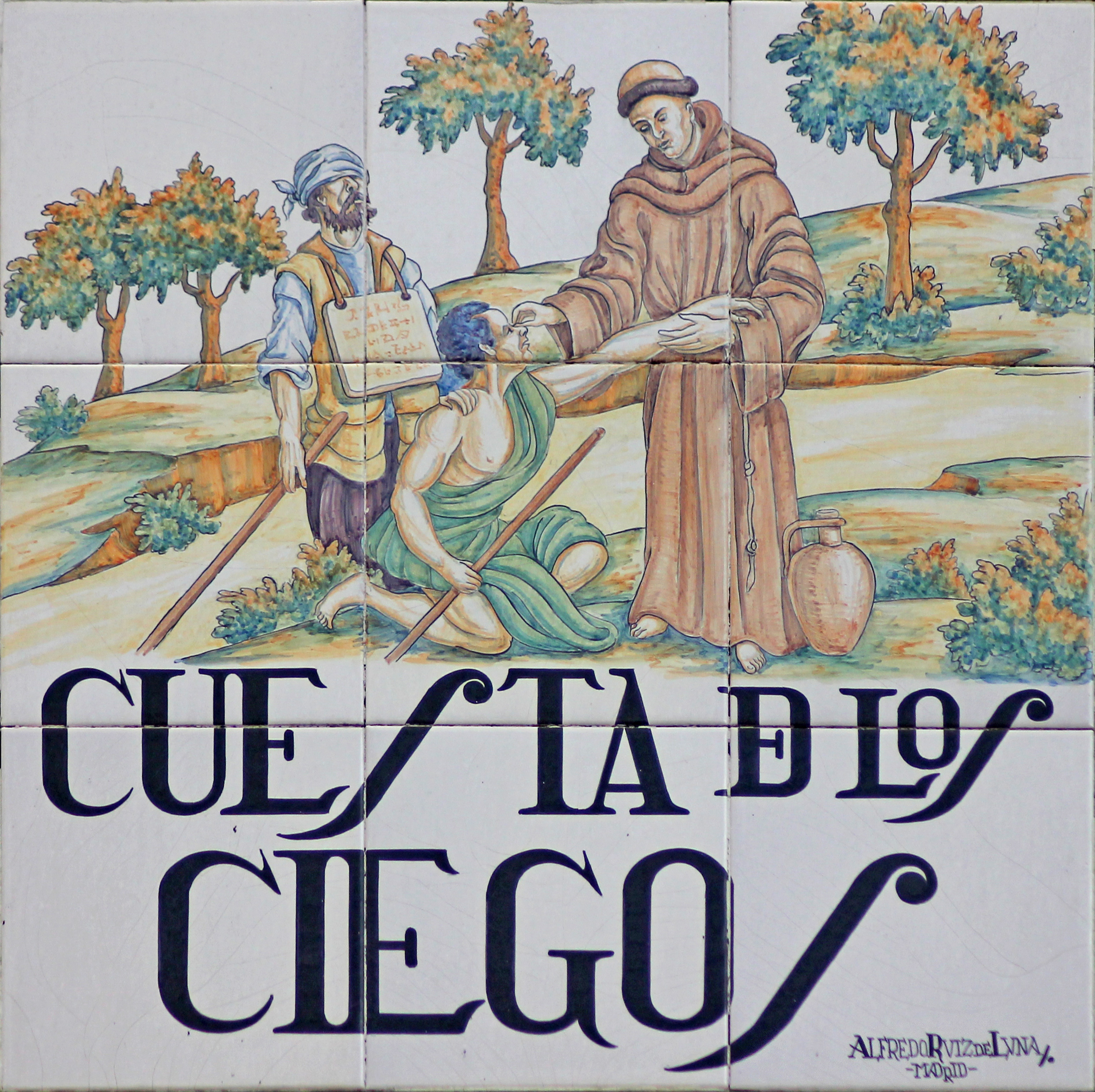 Sign of Cuesta de los Ciegos (street) in Madrid (Spain).